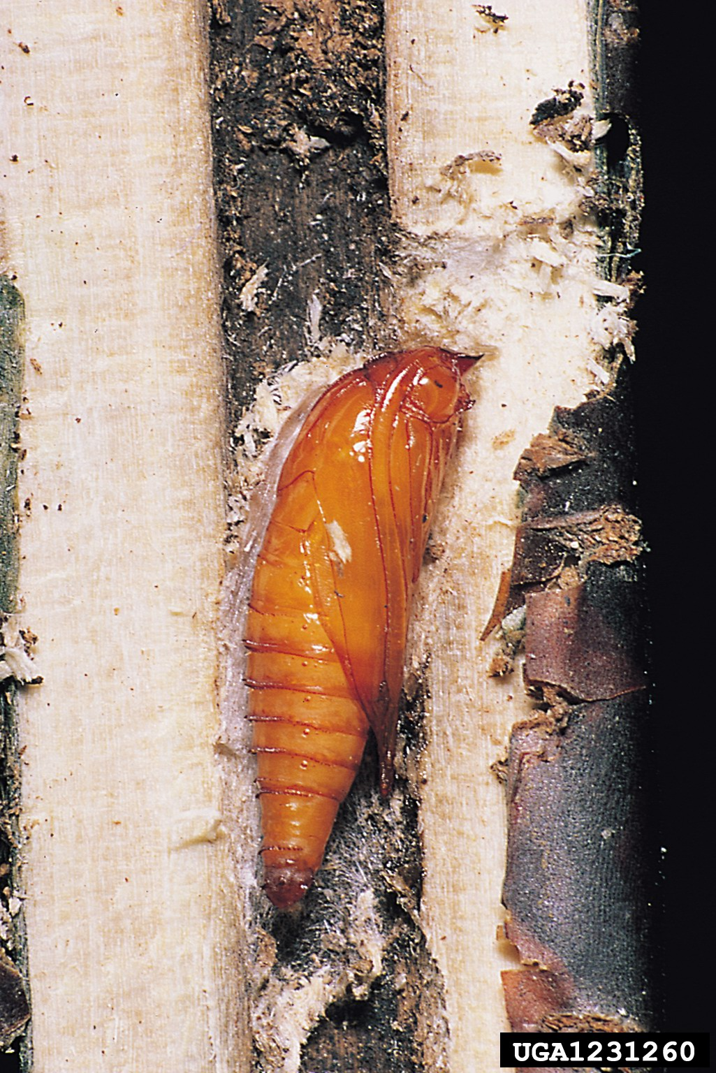 Synanthedon tipuliformis